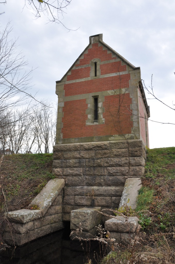 Sudbury Aqueduct Waste Weir A. This is a weir and control house located in northern Sherborn, Massachusetts. The control house contains equipment for diverting water from the Sudbury Aqueduct (which crosses over on the weir) into Course Brook below. The aqueduct was constructed 1875-1878 and now forms part of the the backup water supply systems for much of eastern Massachusetts.